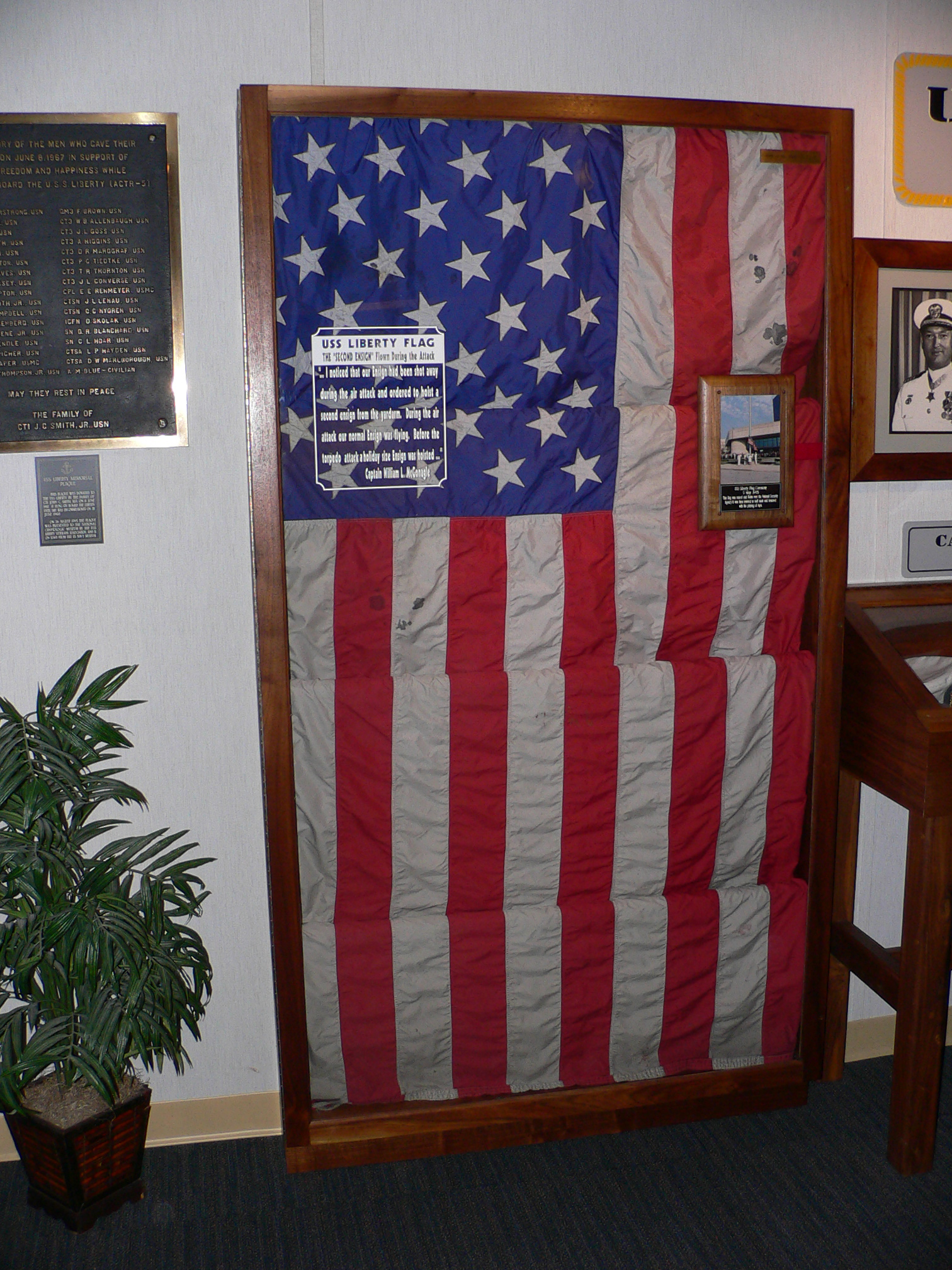 Pictures taken by myself at the US National Cryptologic Museum.